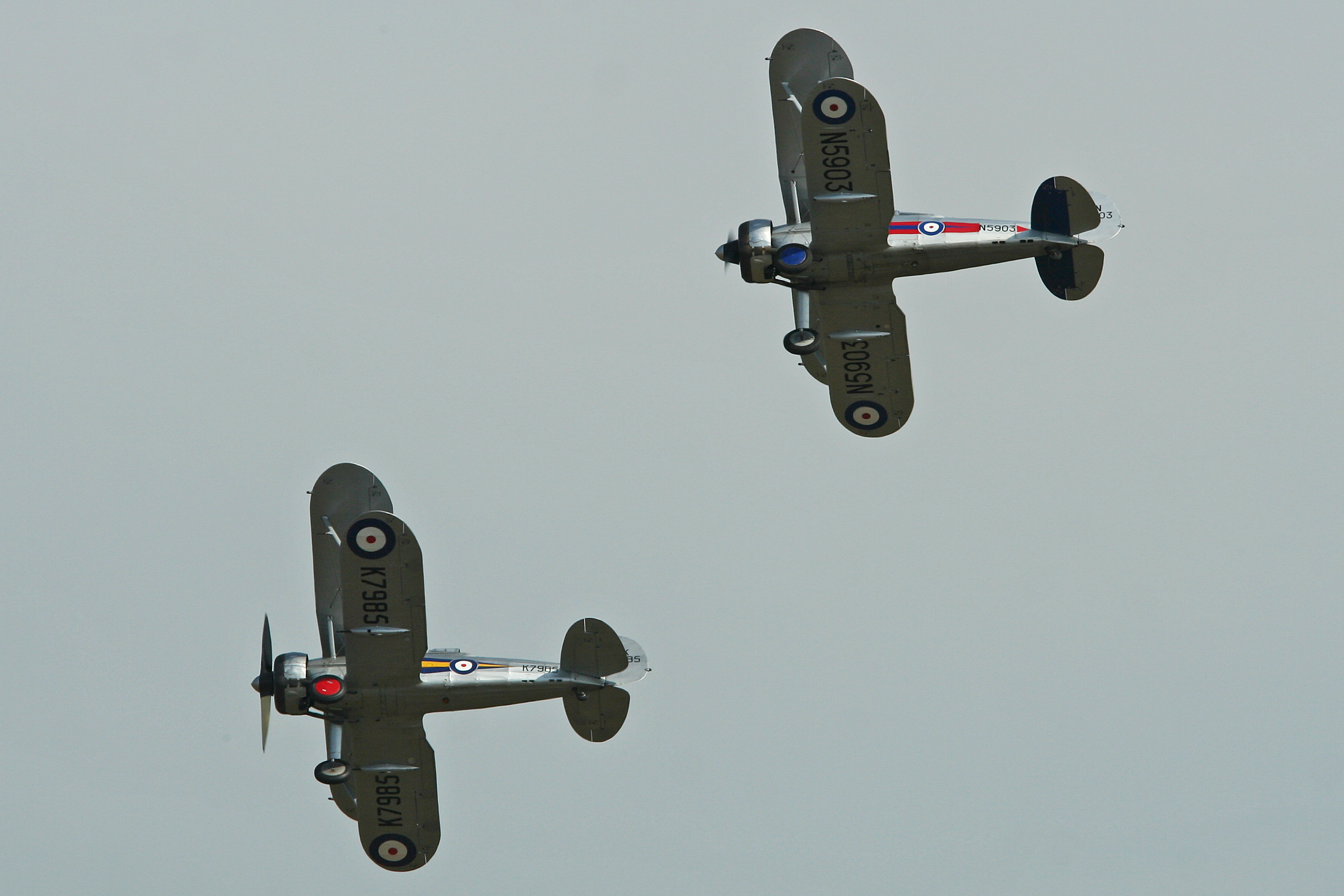 What everyone was waiting for!! The long awaited formation of two Gloster Gladiators! The formation is led by old favourite G-AMRK from the Shuttleworth Collection at Old Warden. Currently in 73sqn markings as 'K7985', she is actually 'L8032'. Trailing is the TFC Gladiator appropriatly registered G-GLAD. She wears 72 sqn markings with her genuine serial 'N5903'. The serial is a clue to her true identity for she is actually a Sea Gladiator II and was for many years on static display in the FAA museum at Yeovilton. Sold to TFC, she has been beautifully restored to fly. She was flown on this occasion by TFCs chief pilot, Peter Kynsey. As far as I am aware, this weekend was the first time that two Gladiators have flown together since WW2. 2013 Flying Legends, Duxford. 14-7-2013